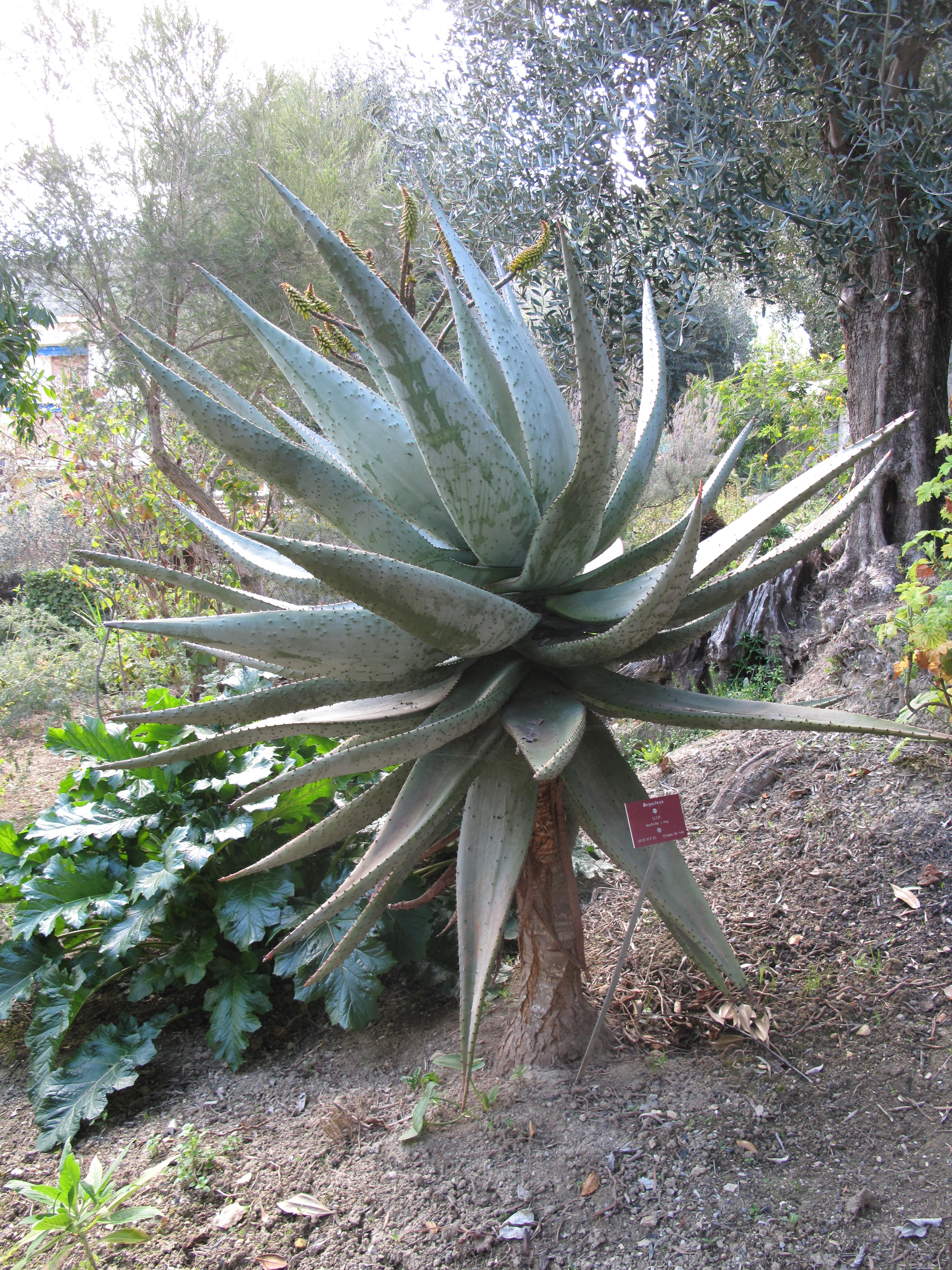 Aloe marlothii in the garden of Val-Rameh in Menton (Alpes-Maritimes, France)